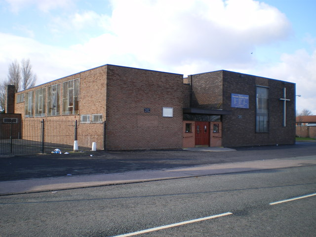 Portobello Methodist Church, New Street, Portobello, Wolverhampton, West Meidlands, seen from the southeast